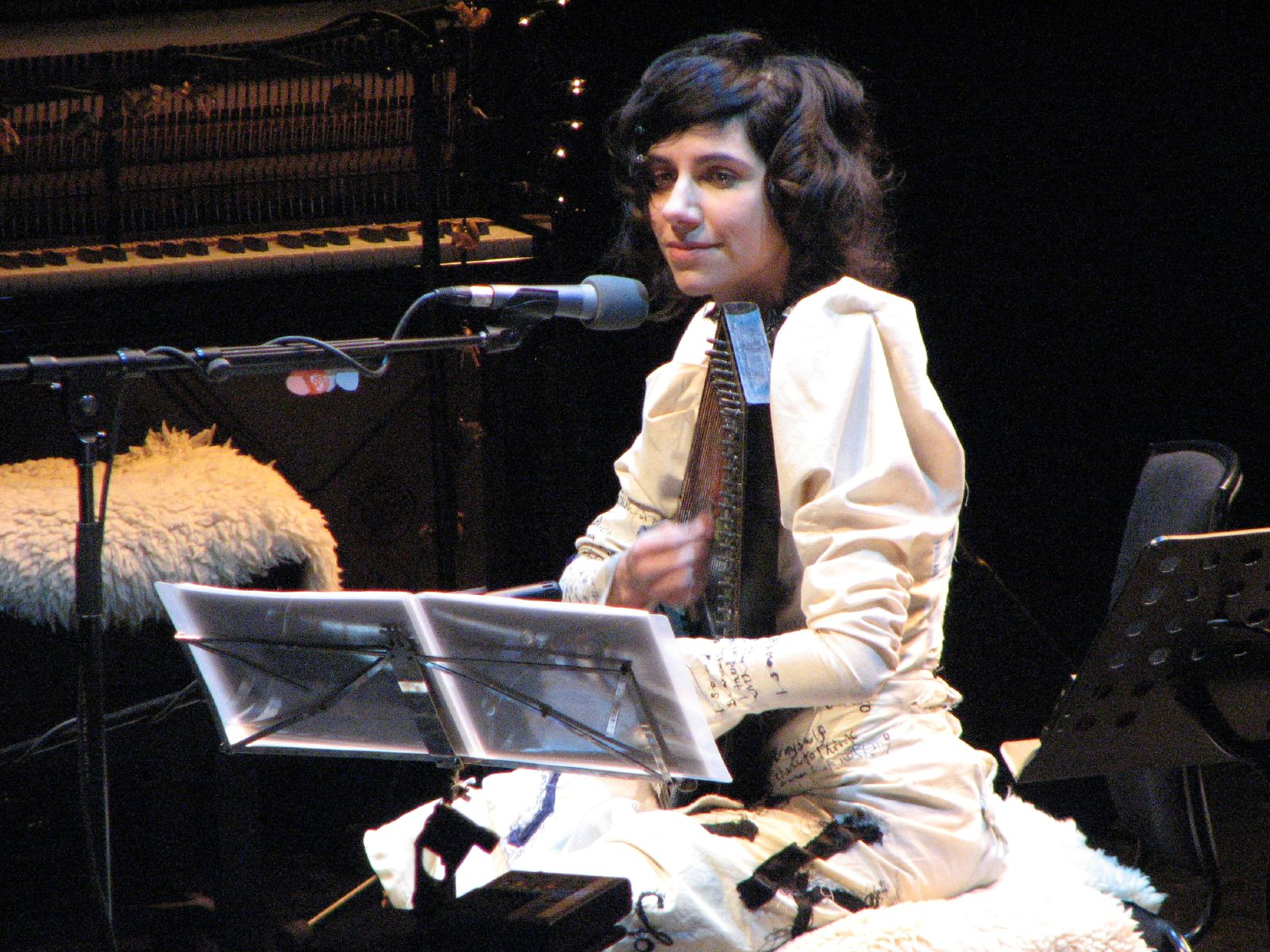 PJ Harvey performing live at the Royal Festival Hall in London, United Kingdom on September 27, 2007.